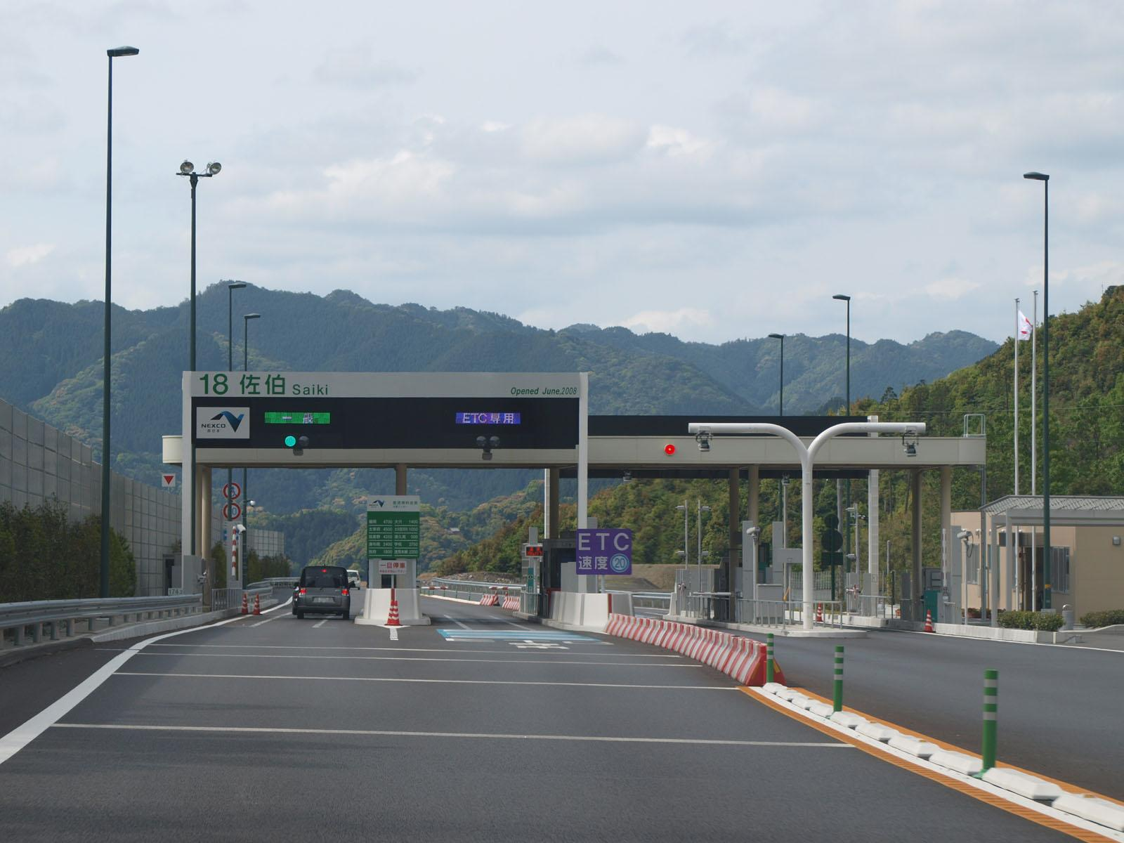 Toll Plaza at Saiki Interchange of Higashi Kyushu Expressway, Saiki, Oita, Japan